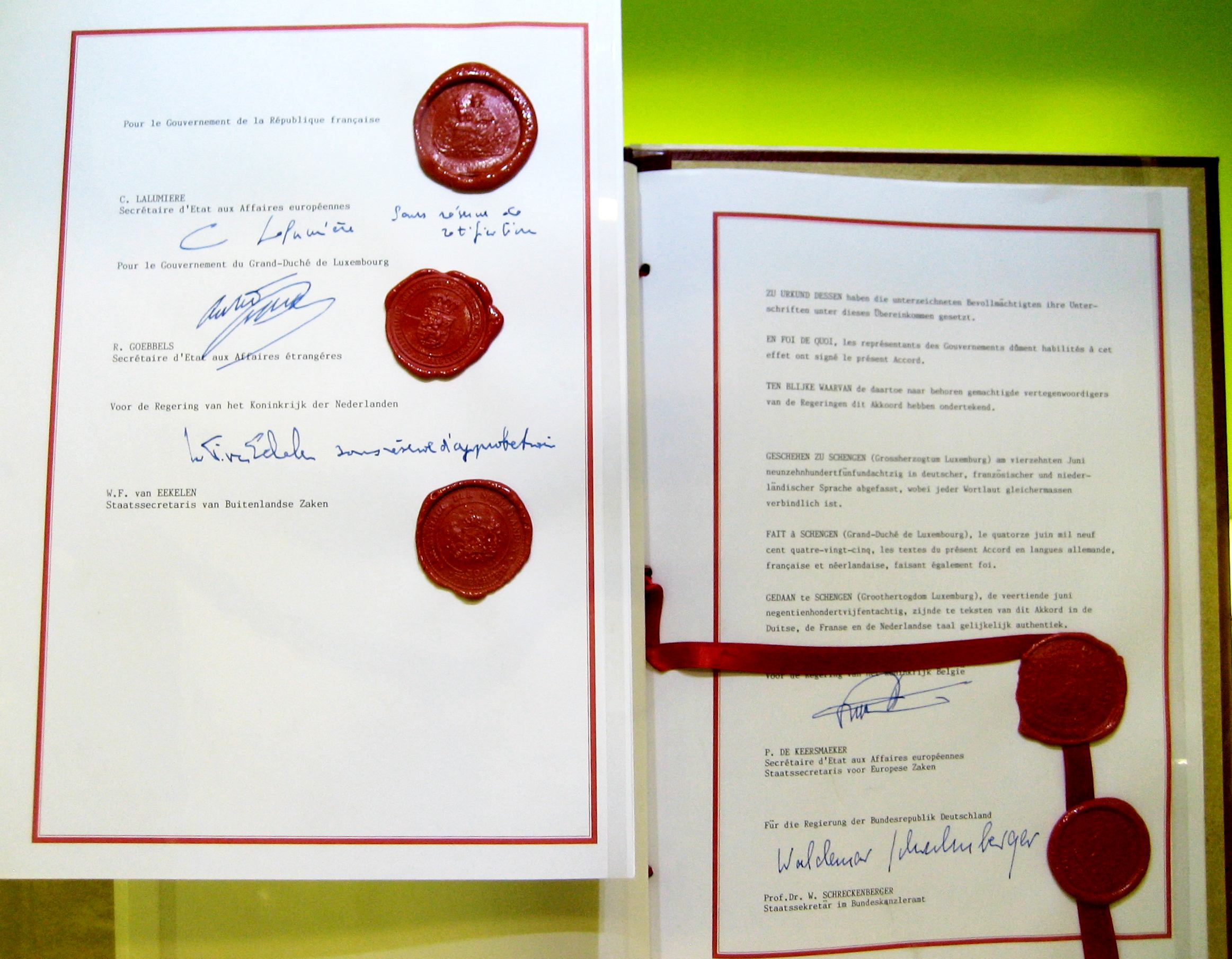 Schengen Agreement signed 1985-06-14, on display in the Schengen Treaty Museum in Schengen, Luxembourg